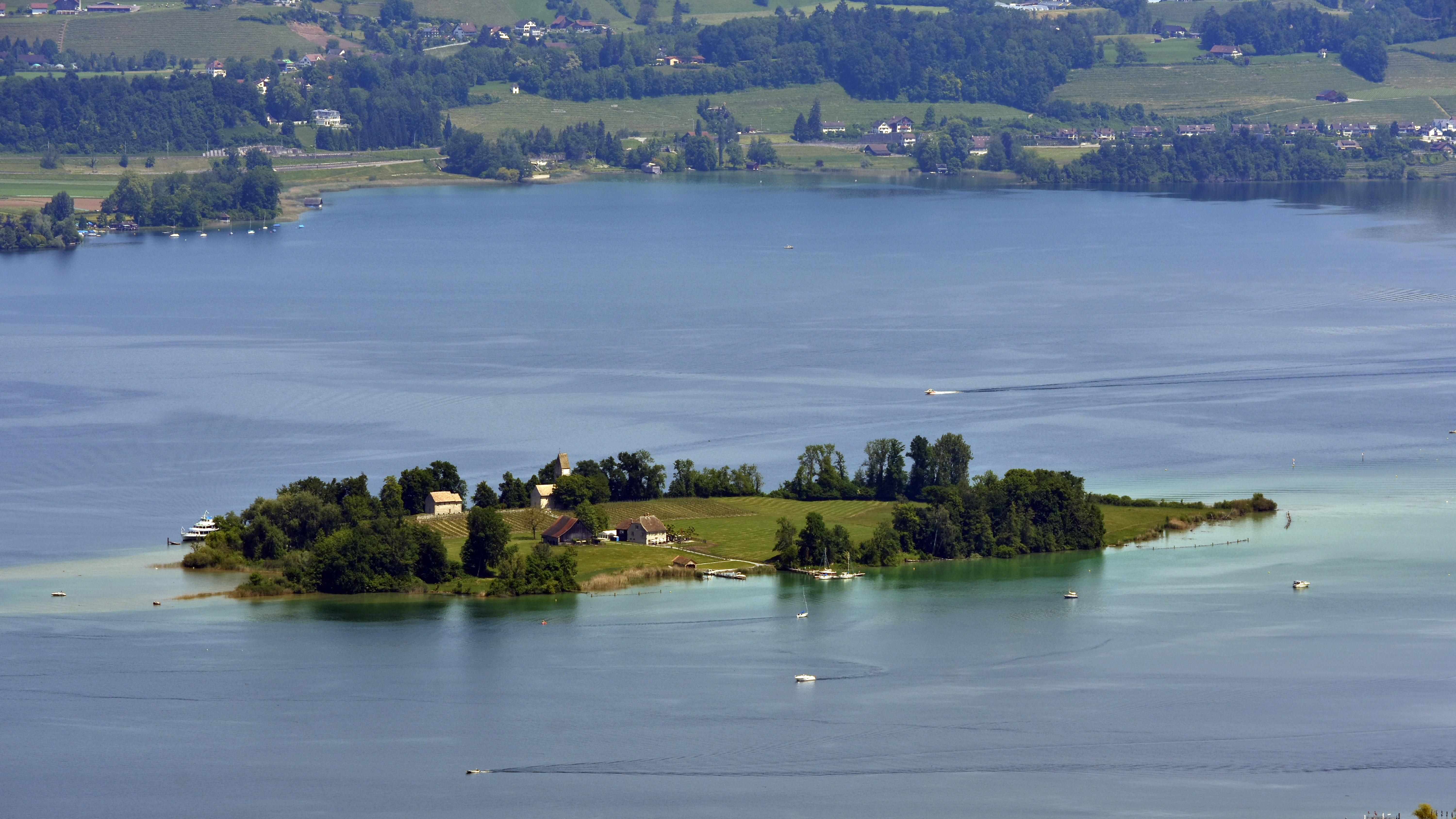 Zürichsee at Rapperswil as seen from the Etzel mountain towards Etzel Kulm : Ufenau island, Feldbach in the background.